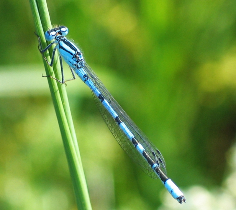 Please note this is Enallagma cyathigerum, not Coenagrion puella